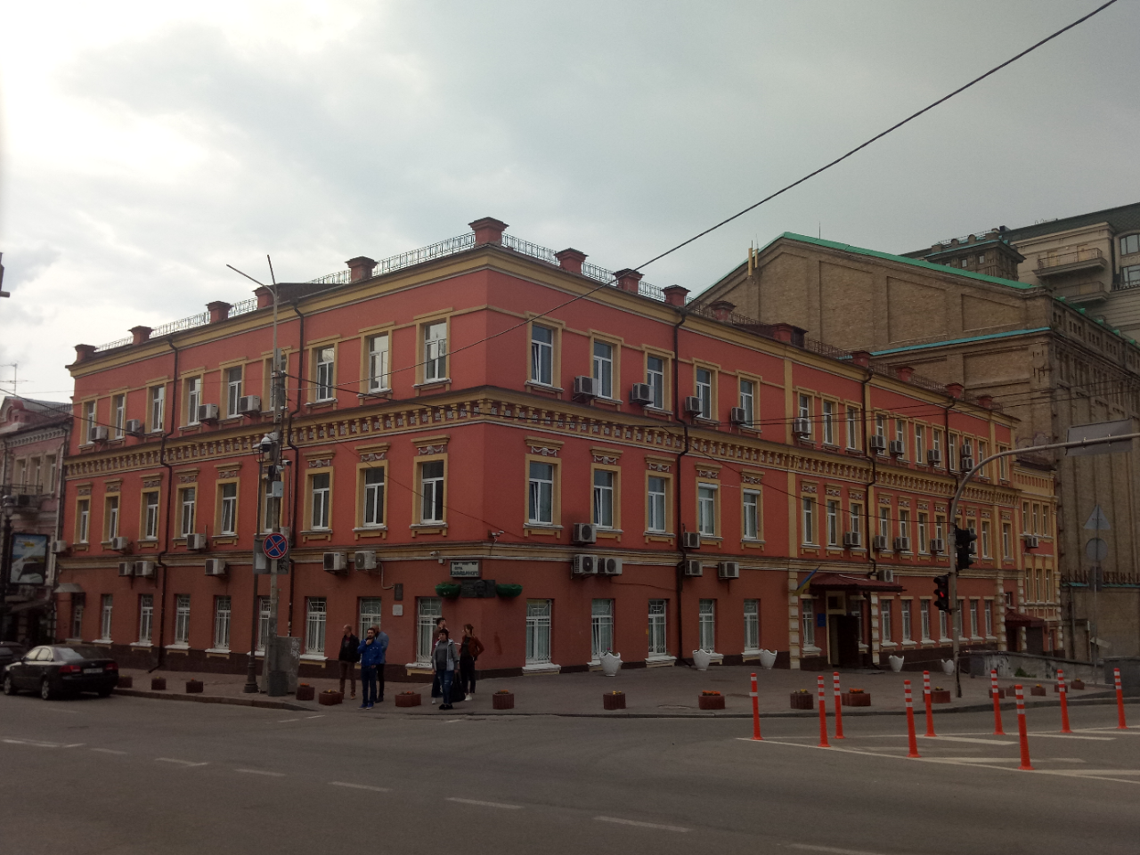 Держаудитслужба фото